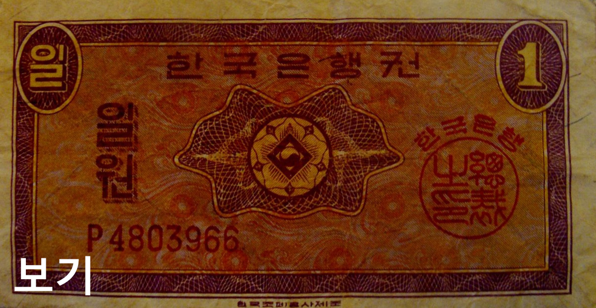 1 South Korean won note